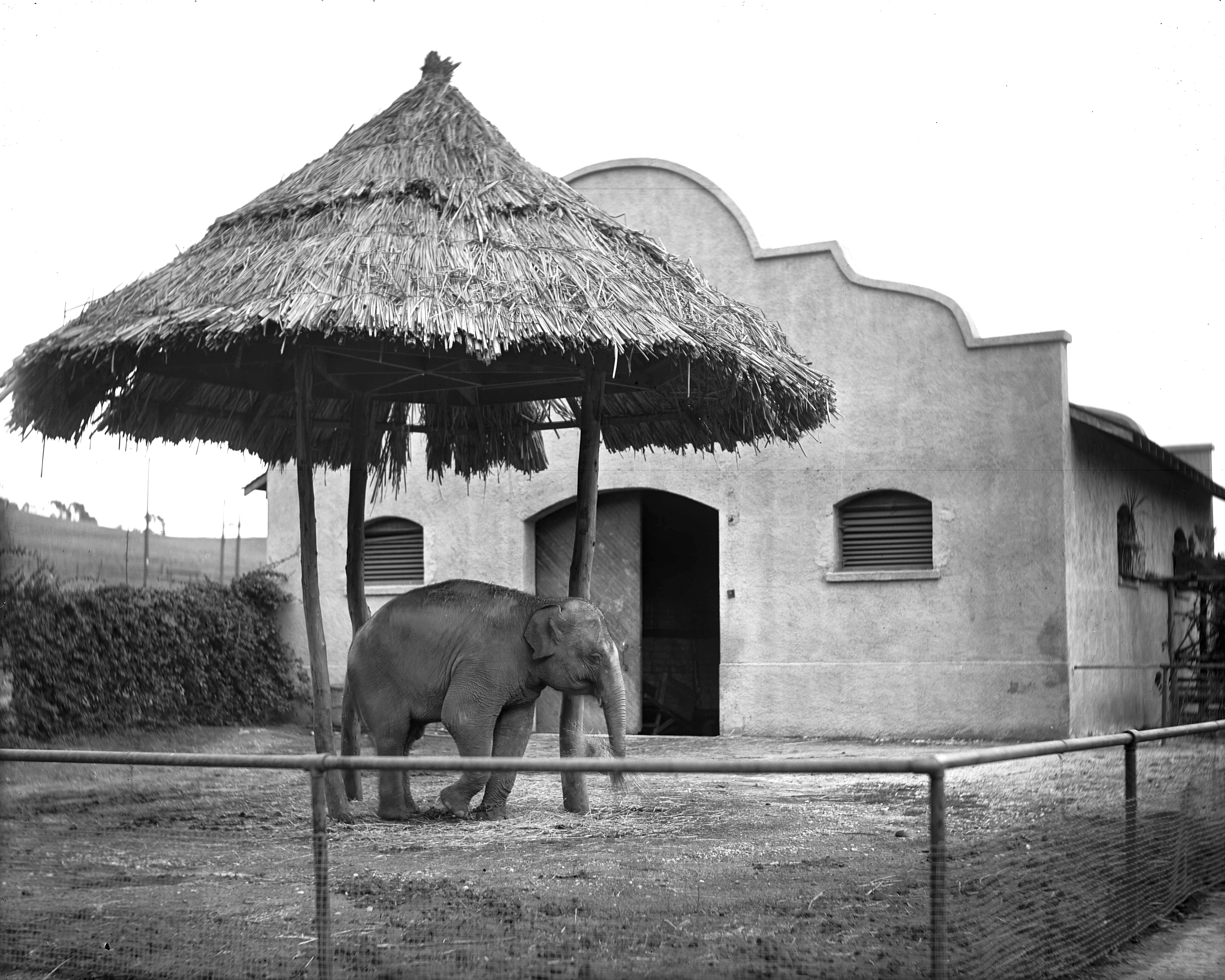 Asian elephant at the Los Angeles Zoo, ca.1920 Photograph of an Asian elephant at the Los Angeles Zoo, ca.1920. The elephant is at center and is walking to the right from under a shelter with a conical straw roof. In the background is a large adobe building with an arched doorway which is flanked by identical arched windows covered by metal vents. There is a low metal fence surrounding the elephant compound visible in the foreground. Call number: CHS-9746 Filename: CHS-9746 Coverage date: circa 1920 Part of collection: California Historical Society Collection, 1860-1960 Format: glass plate negatives Type: images Geographic subject (city or populated place): Los Angeles Repository name: USC Libraries Special Collections Accession number: 9746 Microfiche number: 1-74-39 Archival file: chs_Volume84/CHS-9746.tiff Part of subcollection: Title Insurance and Trust, and C.C. Pierce Photography Collection, 1860-1960 Repository address: Doheny Memorial Library, Los Angeles, CA 90089-0189 Geographic subject (country): USA Format (aacr2): 1 photograph : glass photonegative, b&w ; 21 x 26 cm. Rights: Digitally reproduced by the USC Digital Library; From the California Historical Society Collection at the University of Southern California Subject (adlf): parks Project: USC Repository Contributing entity: California Historical Society Date created: circa 1920 Publisher (of the digital version): University of Southern California. Libraries Format (aat): photographs Geographic subject (state): California Subject (file heading): Animals -- Elephants Legacy record ID: chs-m14018; USC-1-1-1-14175 Access conditions: Send requests to address or e-mail given. Phone (213) 821-2366; fax (213) 740-2343. Geographic subject (county): Los Angeles Subject (lcsh): Elephants